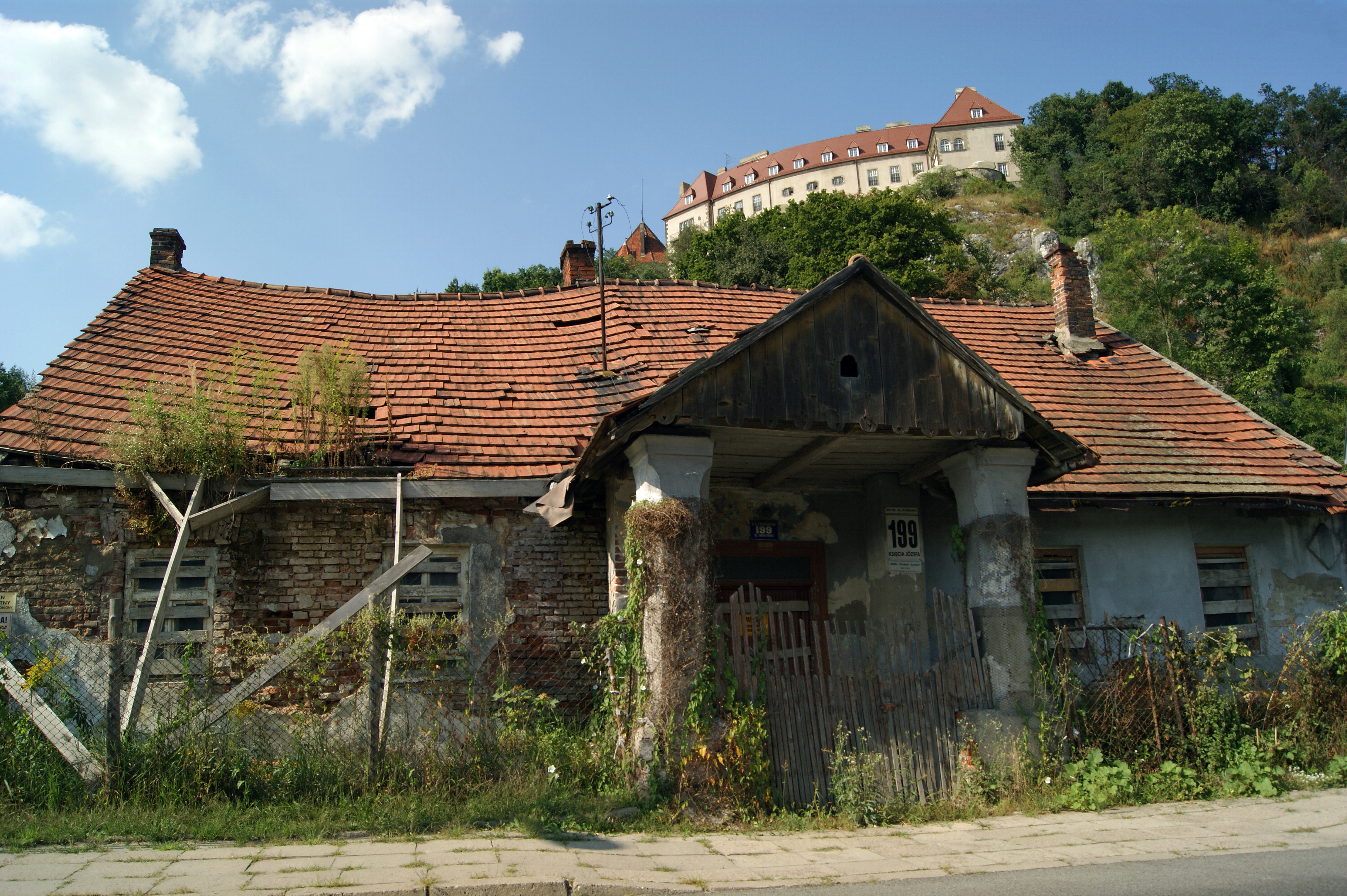 Old inn, 199 Ksiecia Jozefa street, Przegorzały, Krakow, Poland